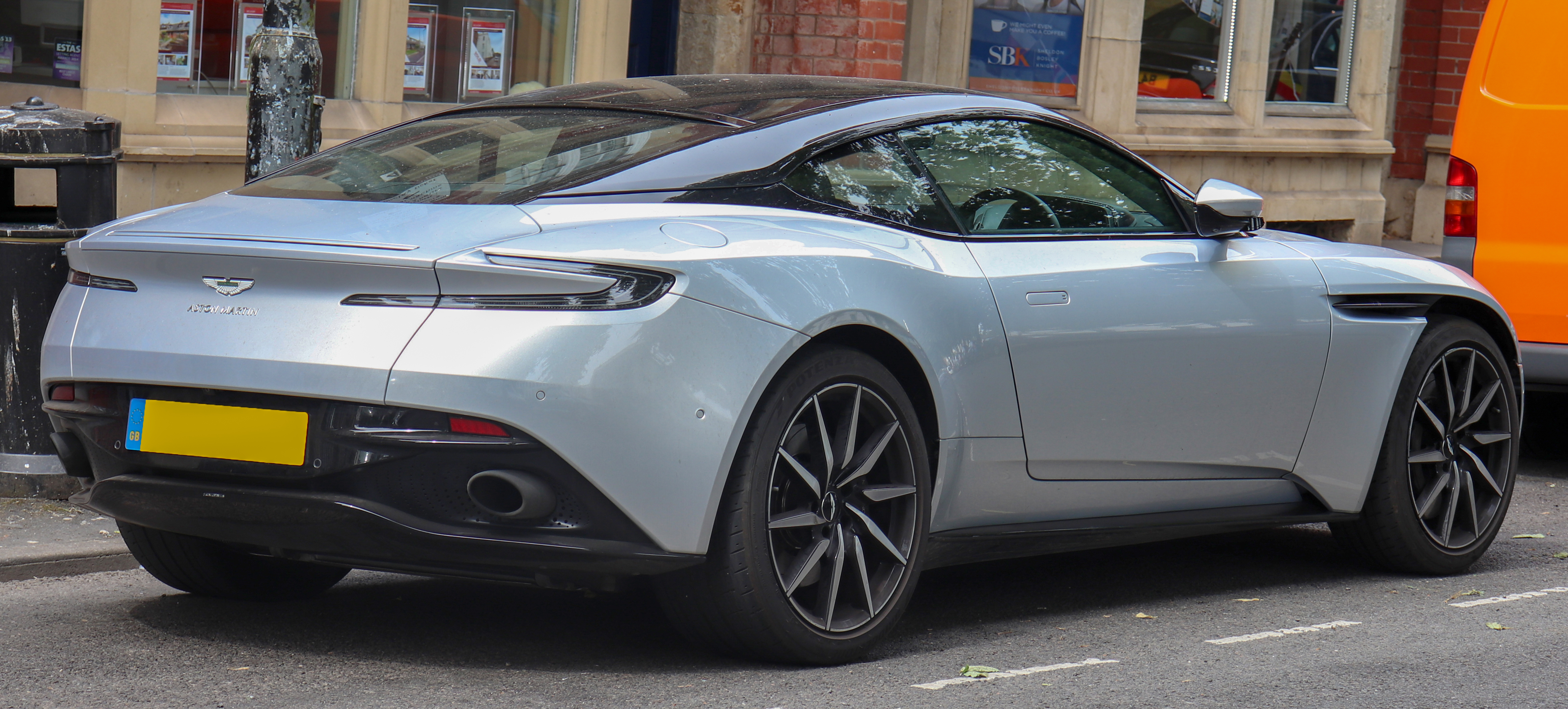 2018 Aston Martin DB11 V8 Automatic 4.0 Rear Taken in Leamington Spa